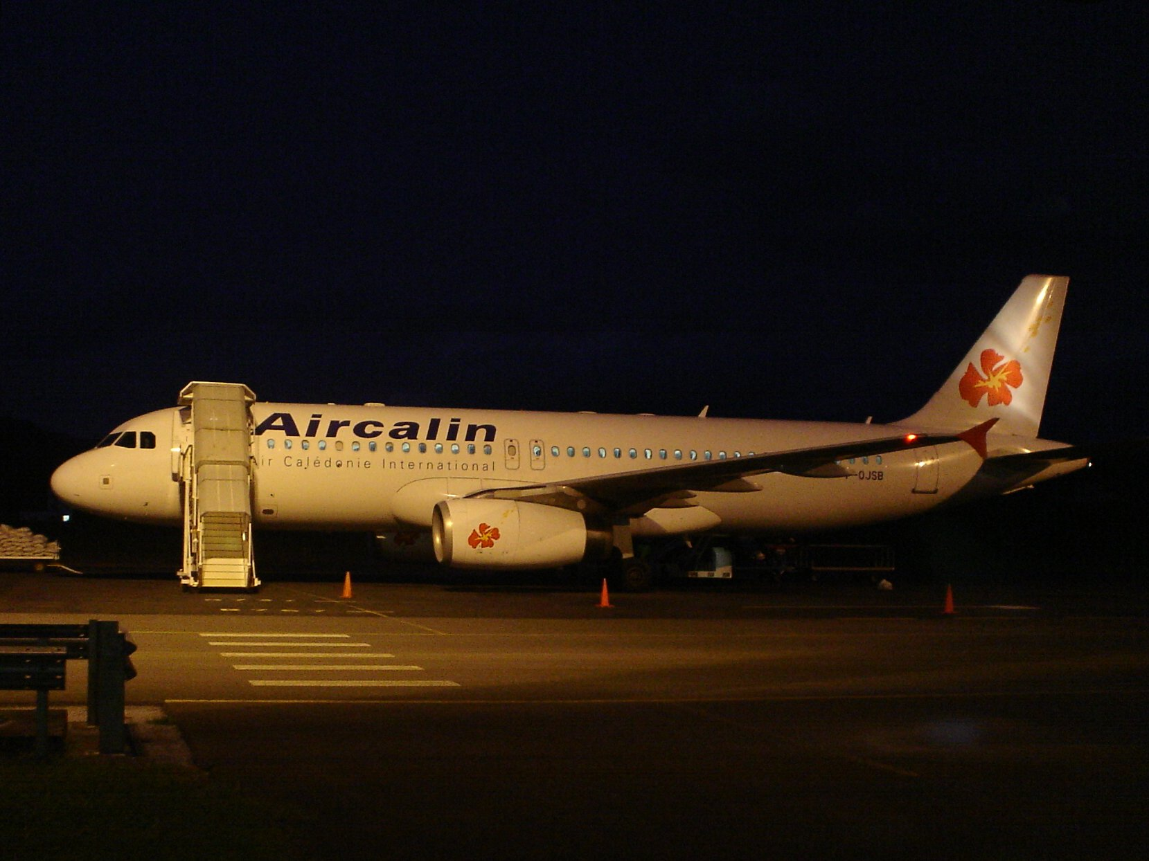 Aircalin's Airbus A320-200 at Bauerfield International Airport in Port Vila